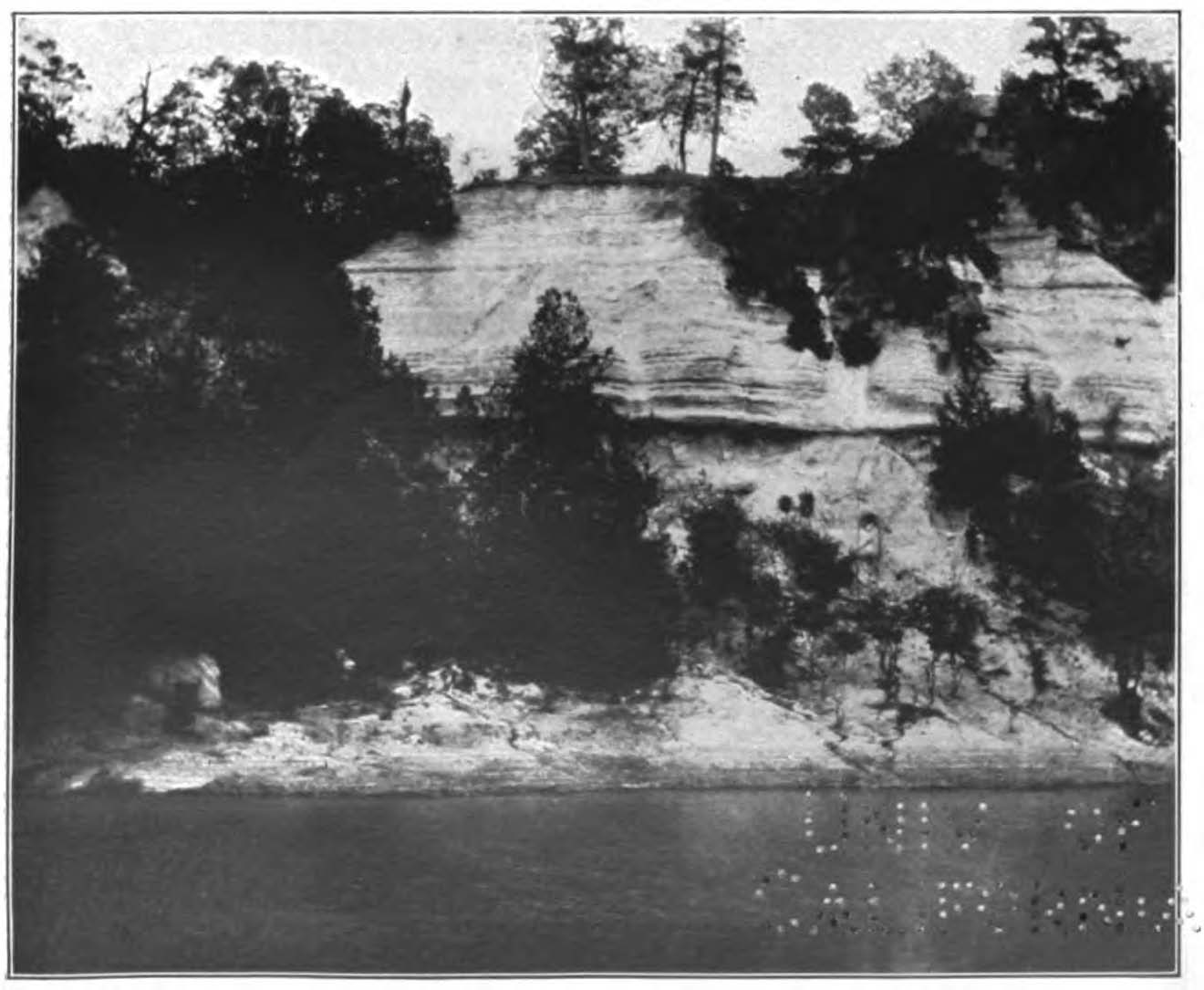 Bulletin 429 Plate XVI B original caption: Annona Chalk overlying Brownstown Marl at White Cliff, Howard County, Ark.This area is now called White Cliffs Natural Area.